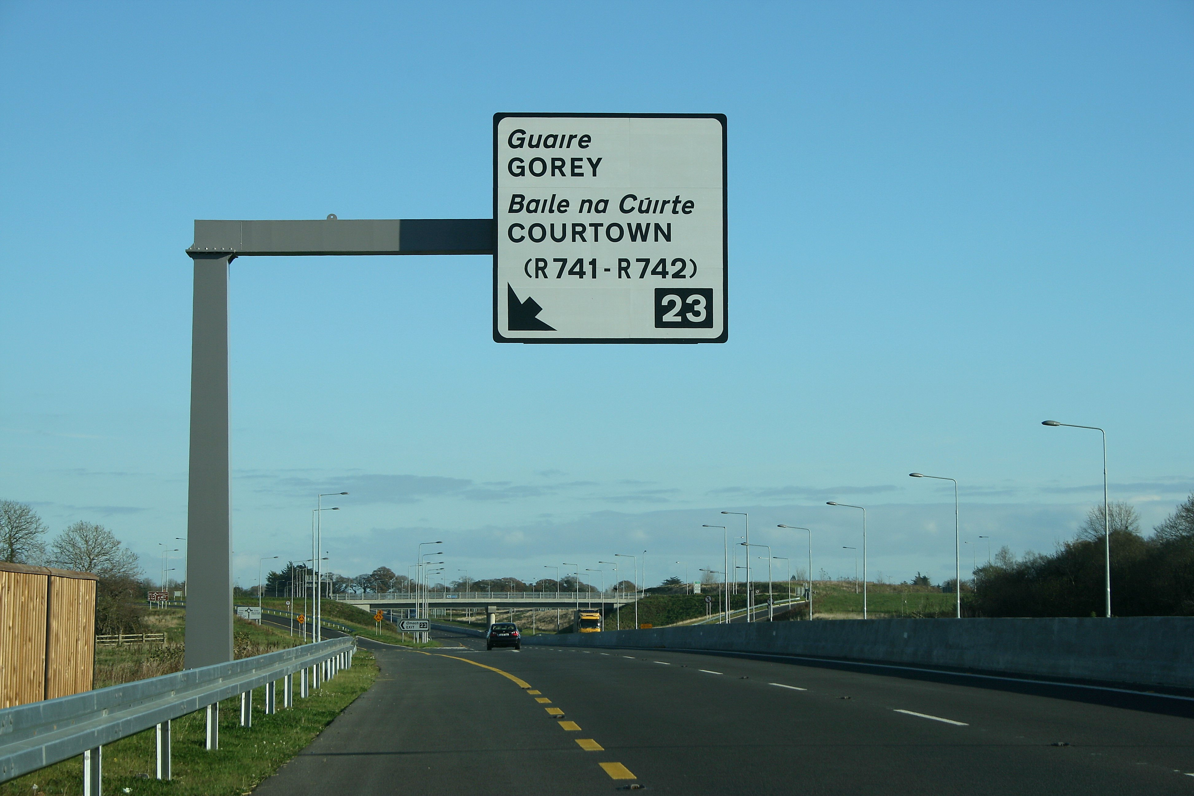 E01: Exit 23 on the N11 in County Wexford, Ireland. This is the new standard exit sign for all restricted access roads.